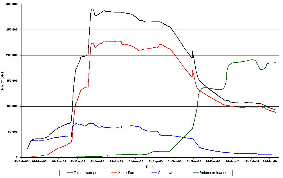 A graph showing the number Sri Lankan IDPs displaced from the Vanni region since October 2008 being detained by the Sri Lankan military at various camps throught northern and eastern Sri Lanka, including IDPs released or returned to places of origin.